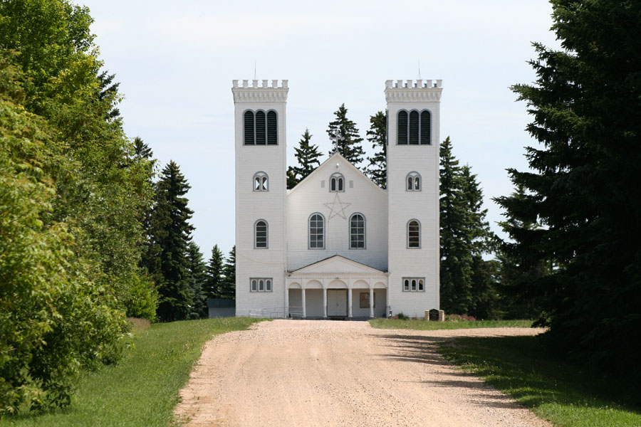 View of St Peter's cathedral, Muenster, Canada